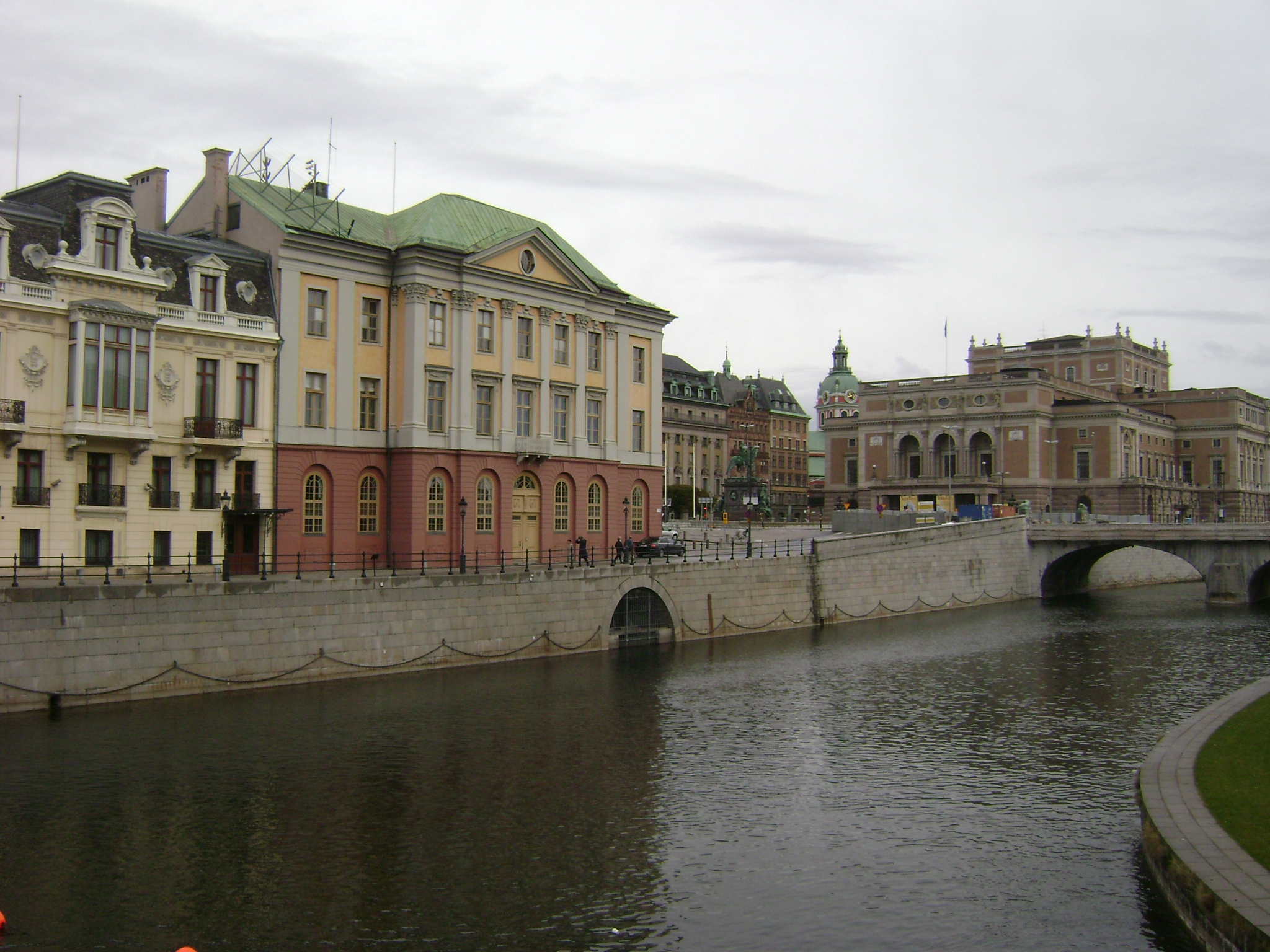 Sweden. Stockholm. Norrmalm.